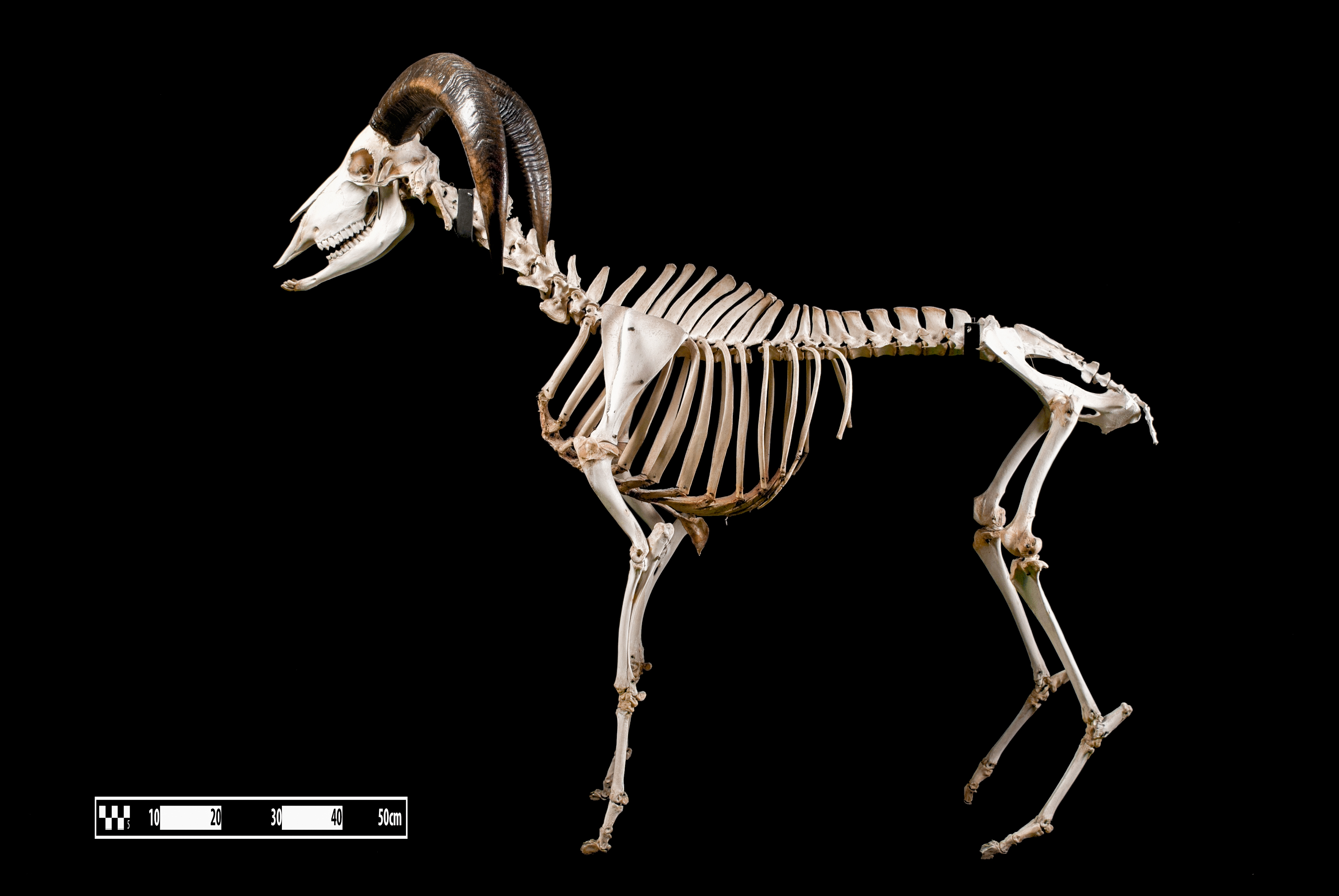 Bighorn sheep skeleton. Ovis canadensis”. Specimen of Bighorn sheep skeleton prepared by the bone maceration technique and on display at the Museum of Veterinary Anatomy, FMVZ USP.